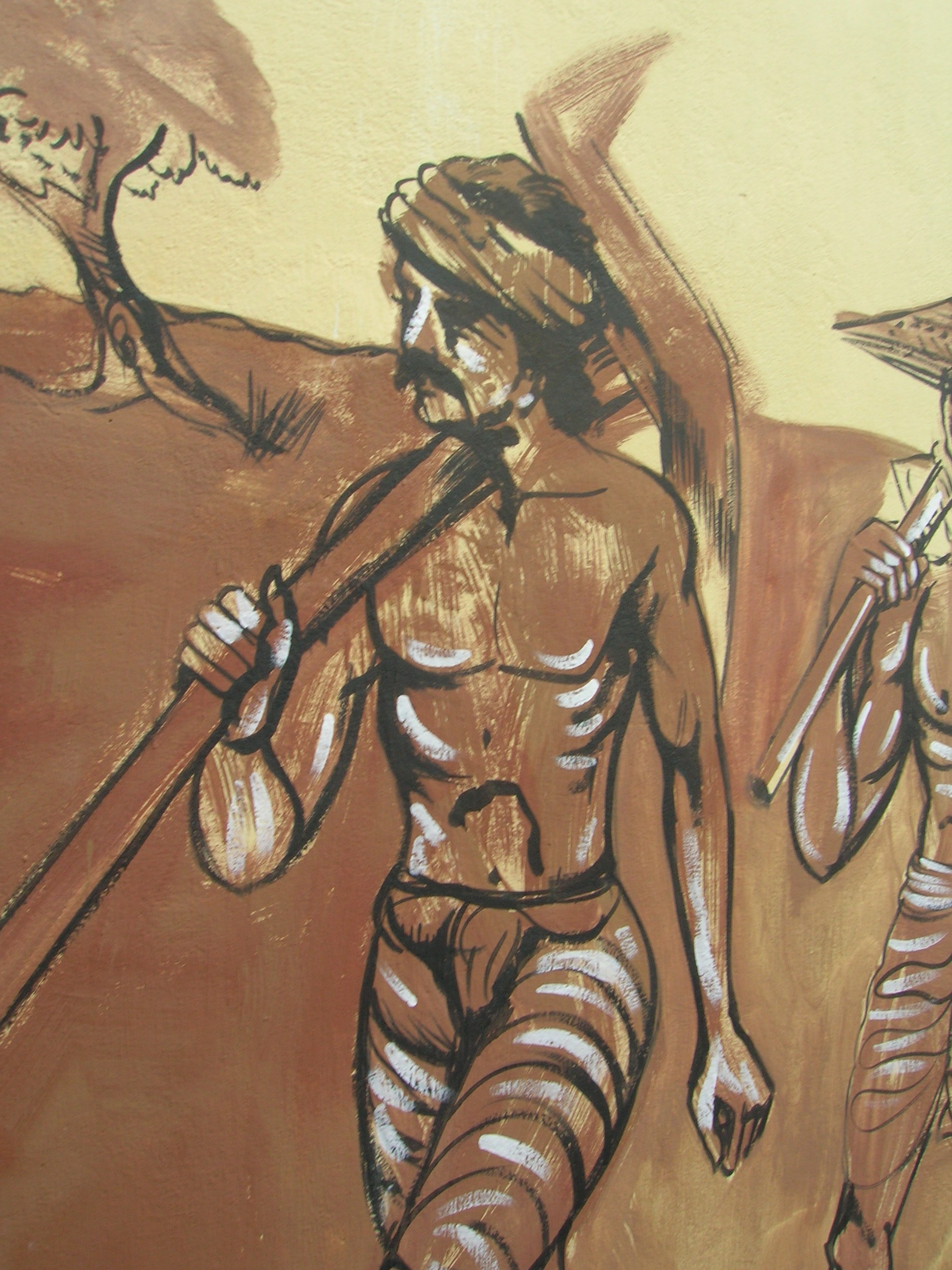 Durga Puja pandal decoration at Barisha Netaji Sangha, Kolkata, 2010.